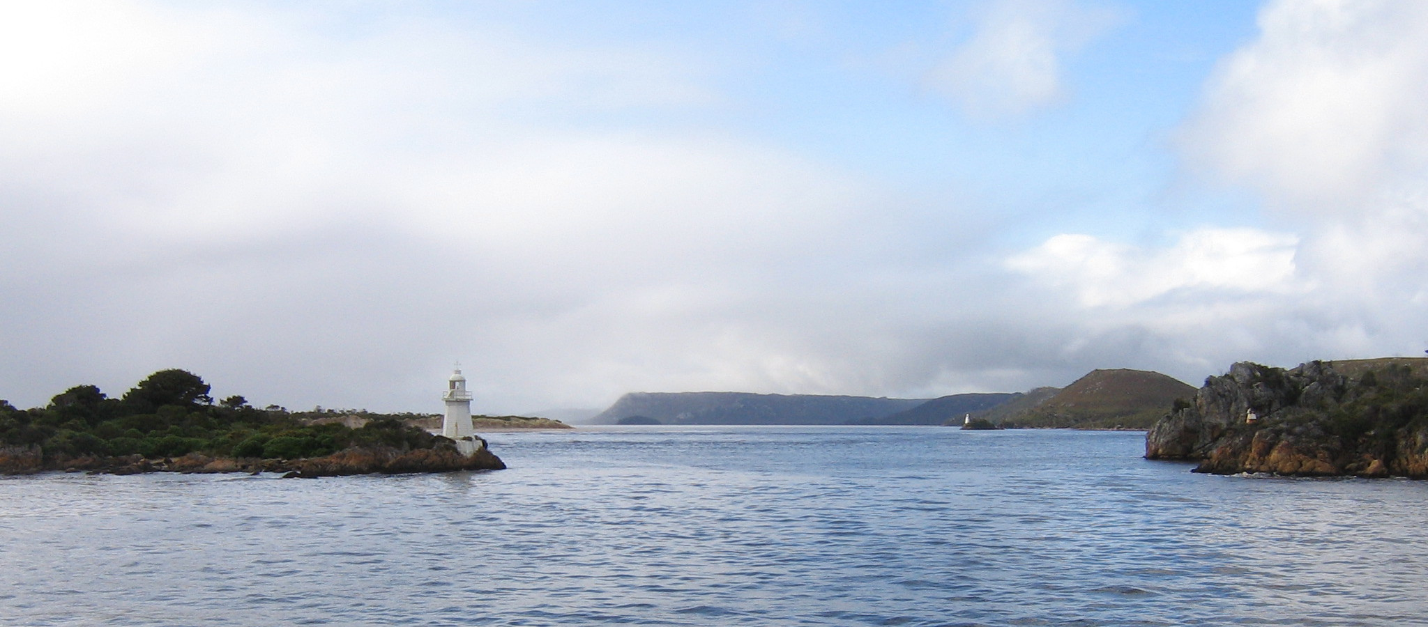 Hell's Gates (Tasmania), the entrance to Macquarie Harbour, viewed from outside. Entrance Island is on the left. Bonnet Island lighthouse is visible in the distance.